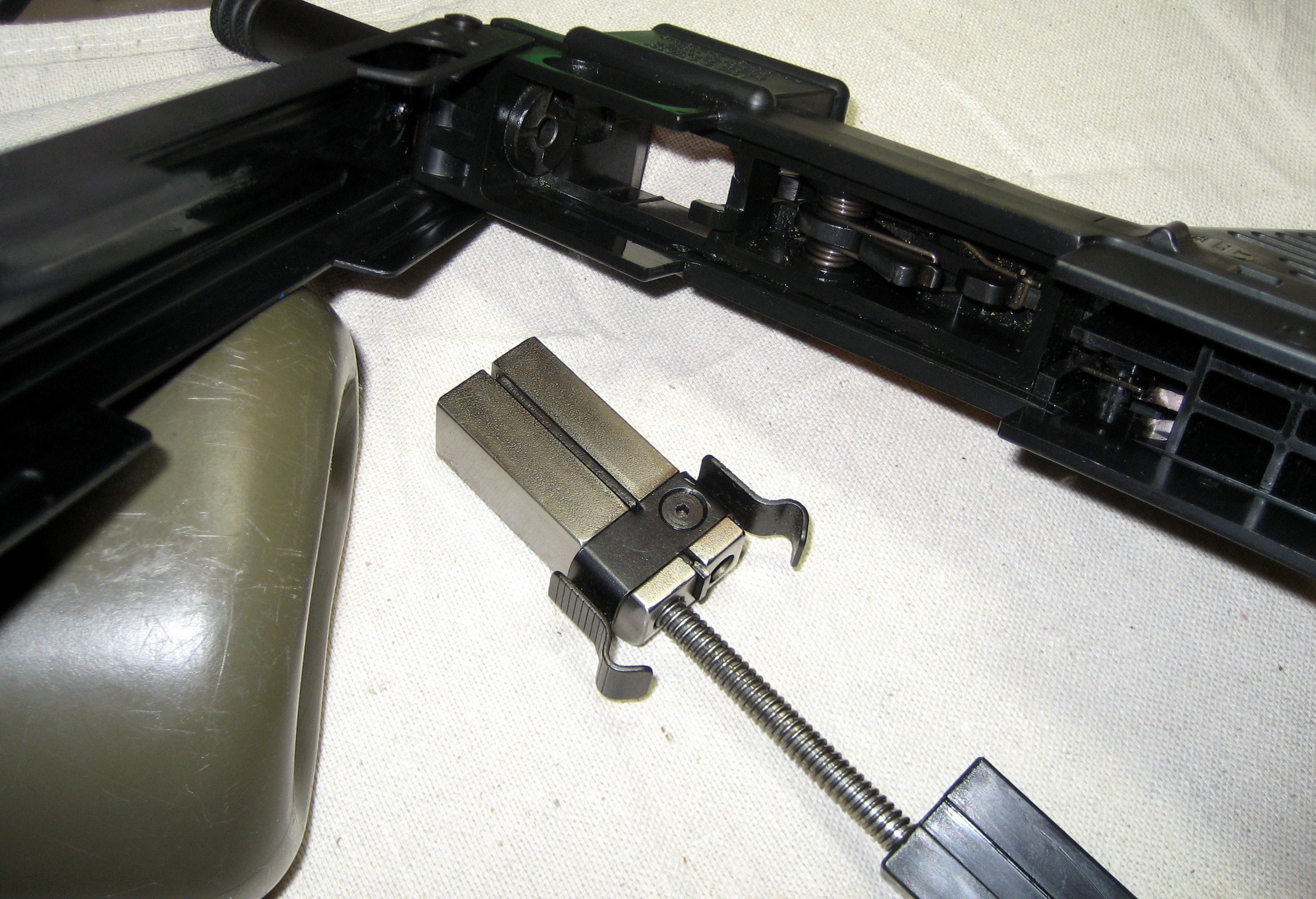 The inside of an Intratec TEC-22 handgun.